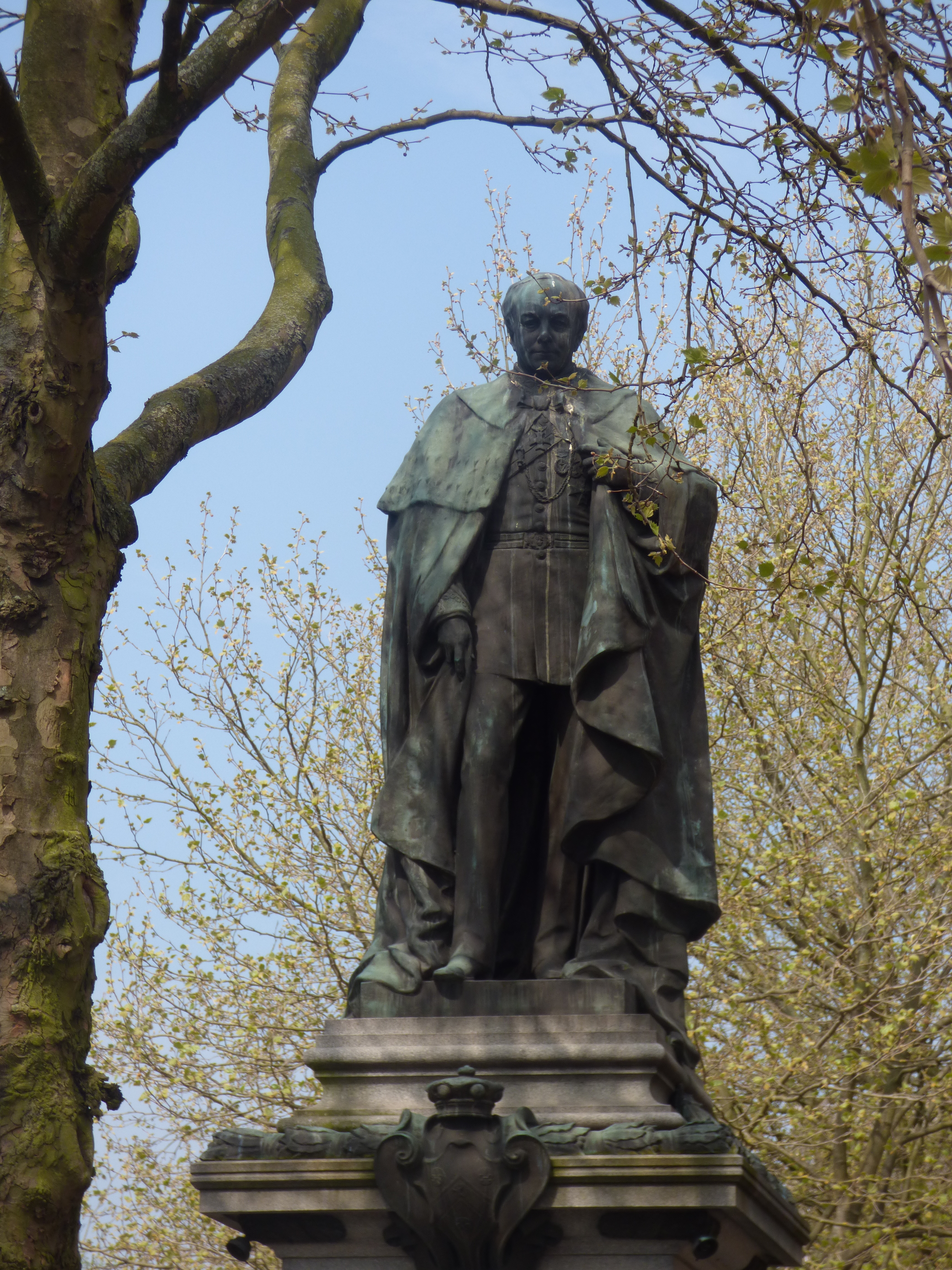 At King Edwards Place in Burton upon Trent. In the Shobnall area of Burton. Burton upon Trent Town Hall. Statue of Michael Arthur Bass The statue is Grade II listed Statue of Michael Arthur Bass, Shobnall KING EDWARD PLACE 1. 5369 Statue of Michael Arthur Bass SK 2323 SE 5/96 II GV 2. 1911. Statue of the 1st Baron Burton (1837-1909) by F W Pomeroy. A conventional life-sized bronze statue on a stone plinth. Listing NGR: SK2400023405 This text is a legacy record and has not been updated since the building was originally listed. Details of the building may have changed in the intervening time. You should not rely on this listing as an accurate description of the building. Source: English Heritage Listed building text is © Crown Copyright. Reproduced under licence.